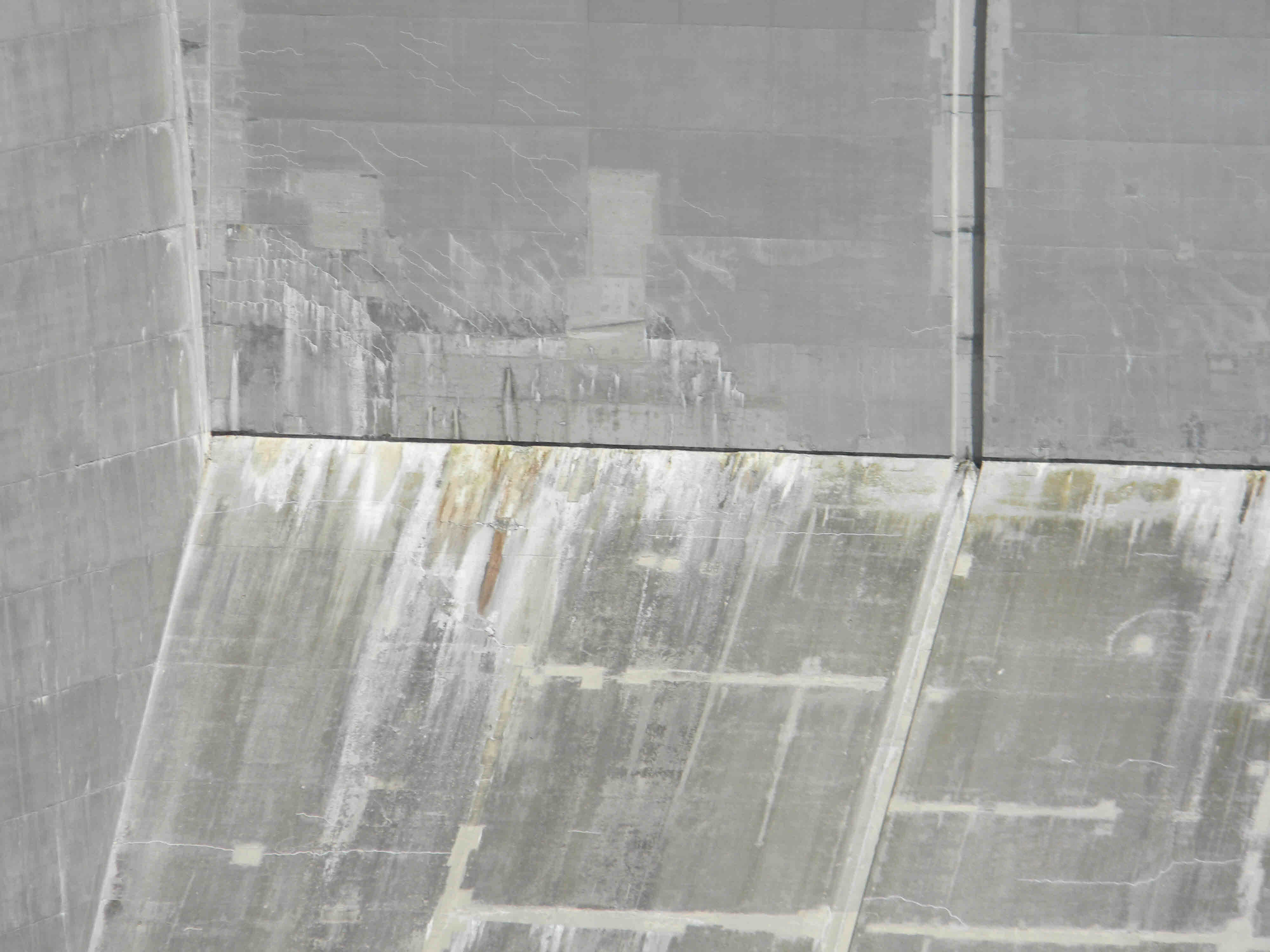 Secondary efflorescence emanating from the Robert Moses Niagara Hydroelectric Power Station, weakening the concrete by dissolving the cement stone.